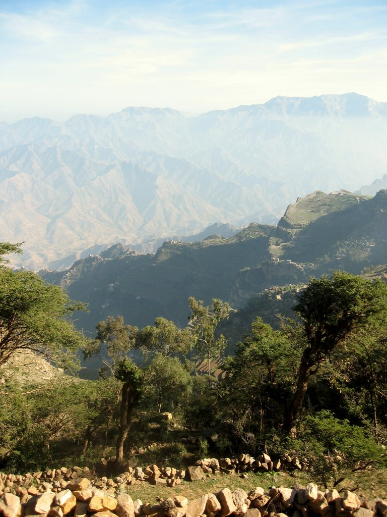 al mawhit province